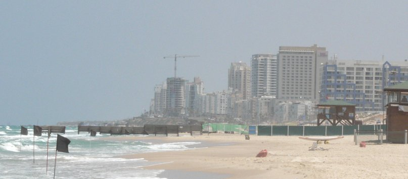 Bat-yam